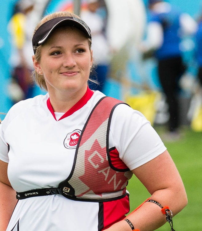 Georcy at the Panamerican Games looking at the crowd